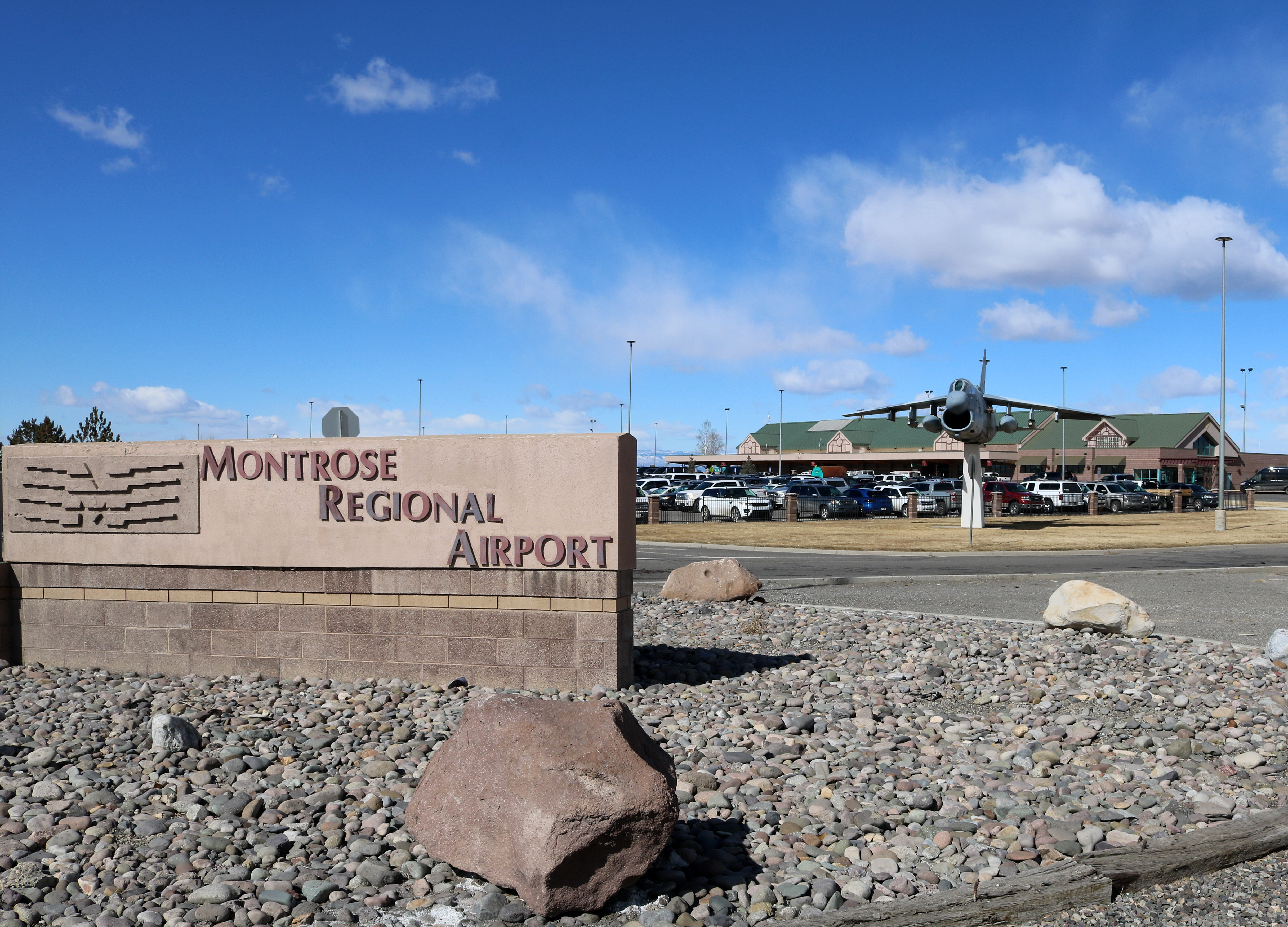 The sign at the U.S. Highway 50 entrance to Montrose Regional Airport. In the background, there is a fighter aircraft, a United States Air Force A-7D, serial 70-1055, named Double Nickel and flown by Major General Mason Whitney for the Colorado Air National Guard. Behind the fighter aircraft is the terminal building.